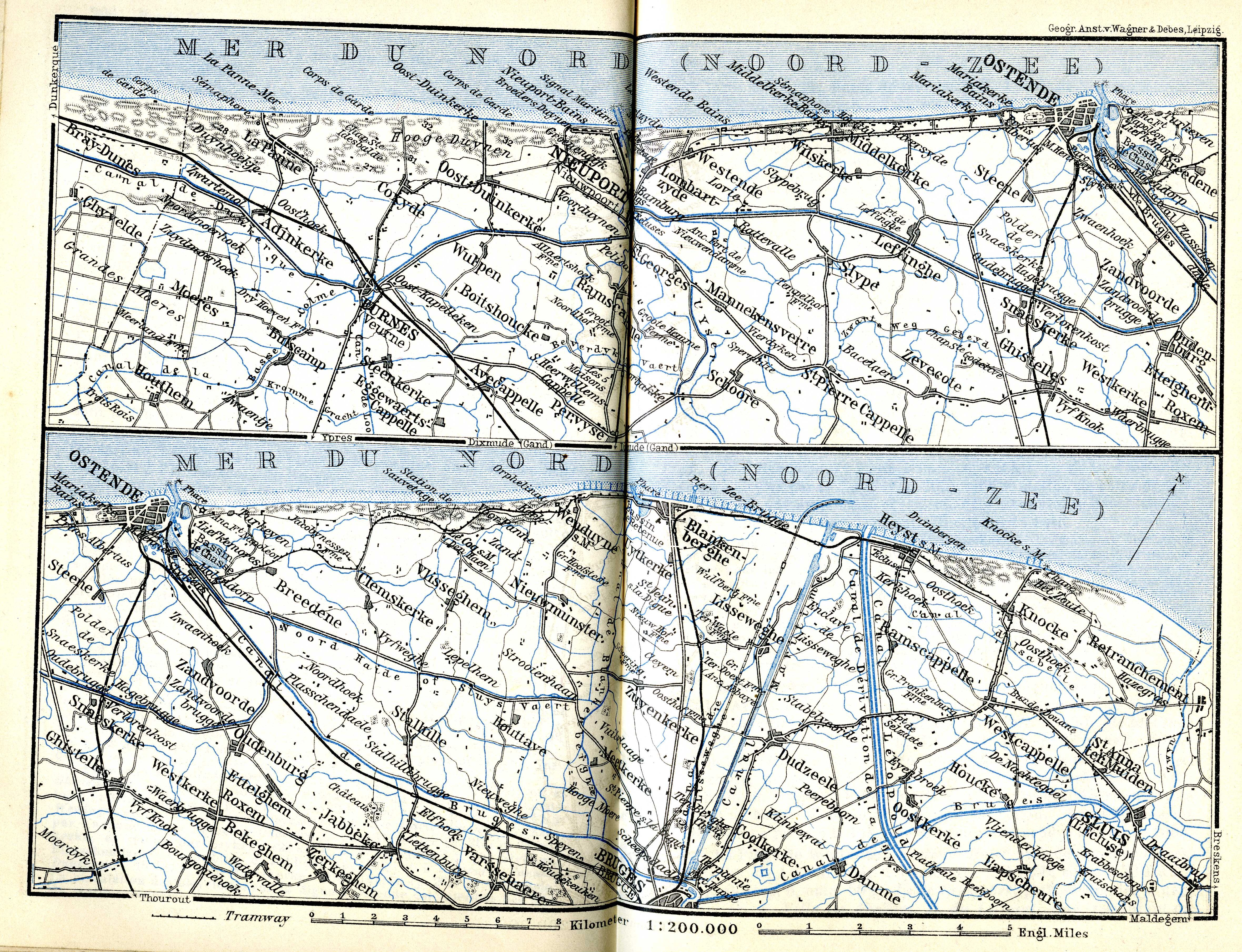 Map of the Belgian coastal region from the Baedeker travelguide of 1905